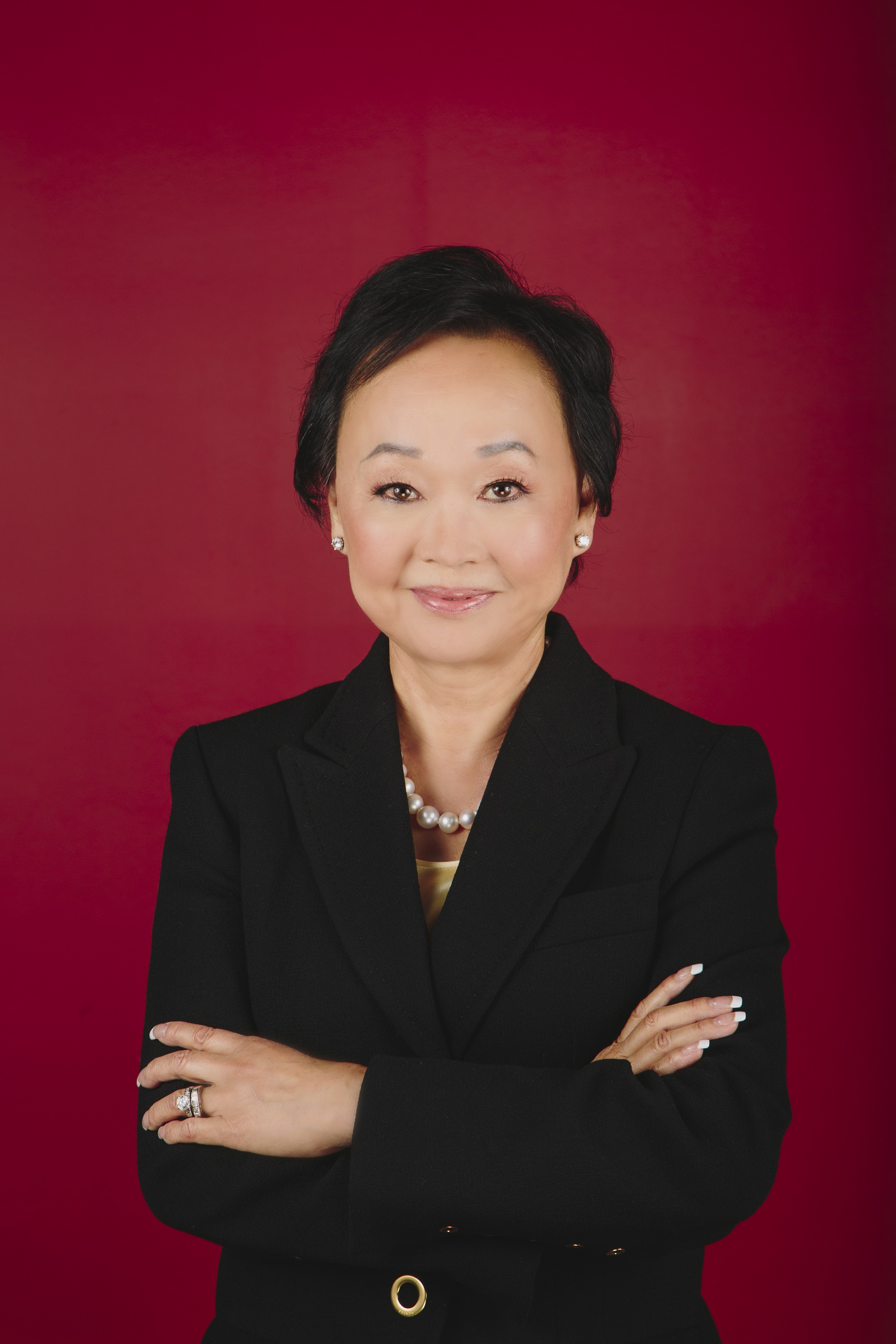 Burmese-American business executive Peggy Cherng